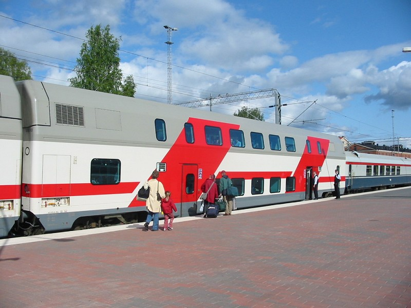 An EDFS conductor car of VR